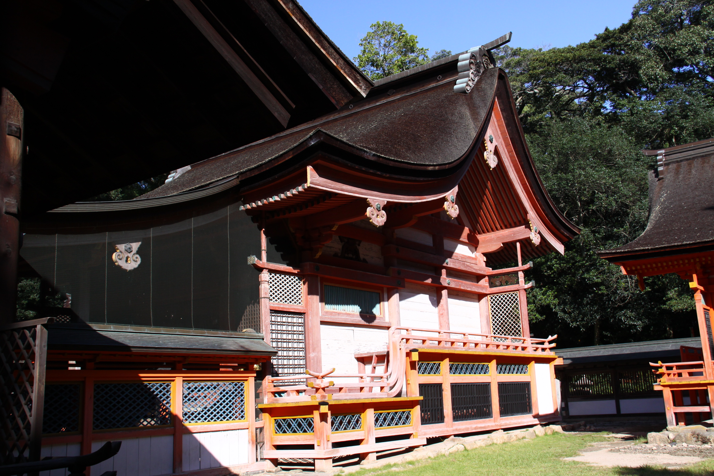 Ooyamazumi-jinja Honden